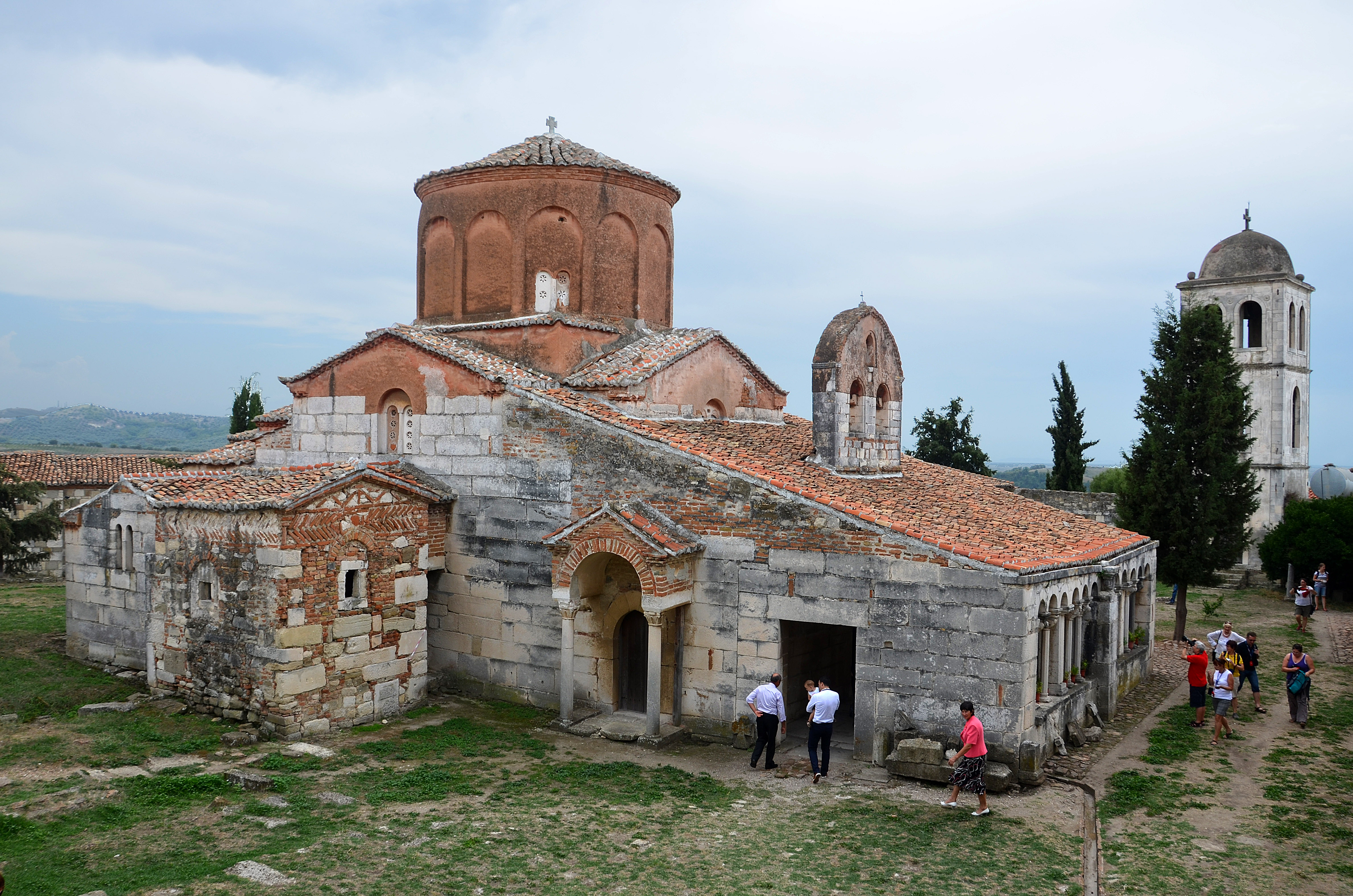 The St Mary Church in Pojan, Albania